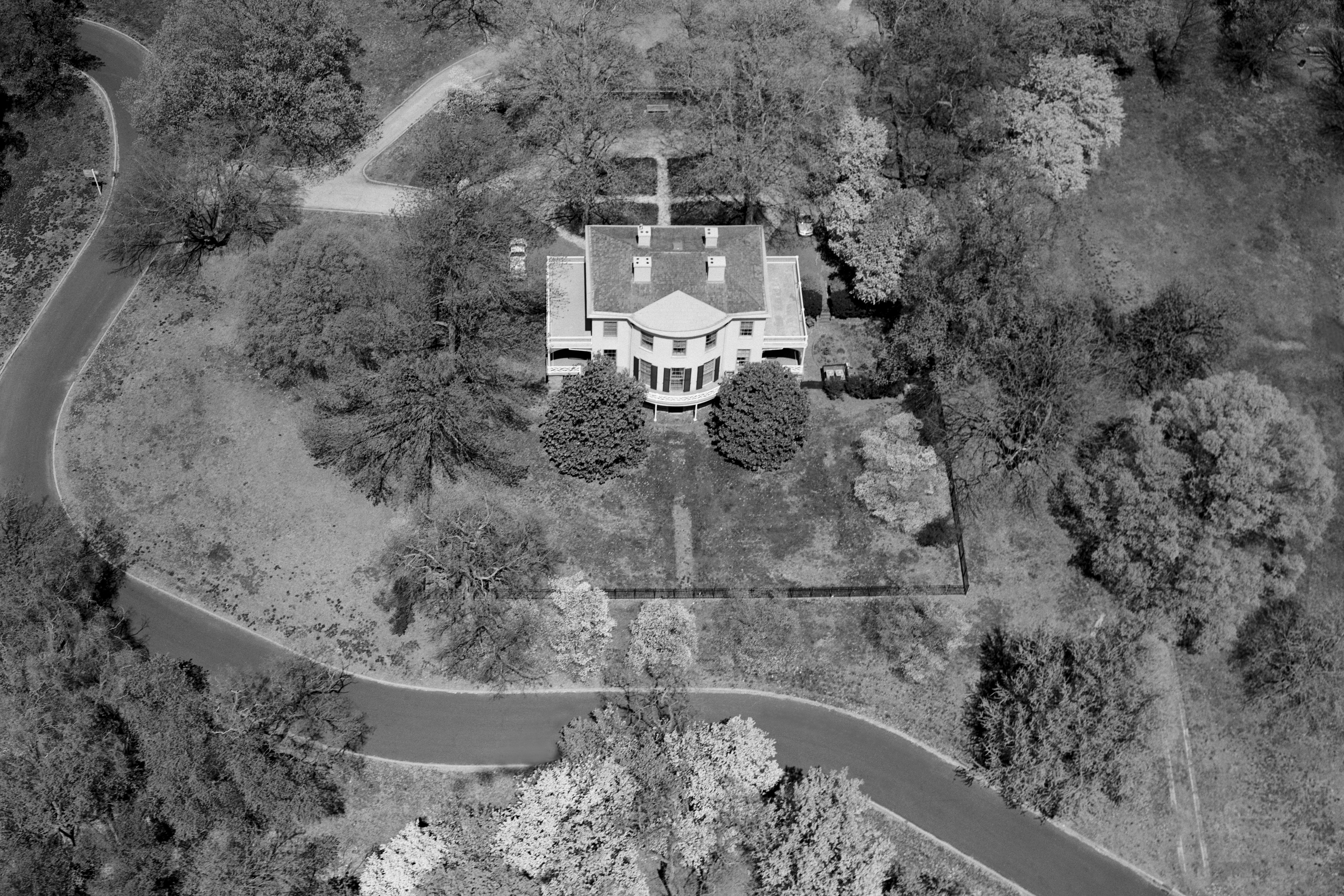 Lemon Hill Mansion, Fairmount Park, Philadelphia, aerial view looking north Object location39° 58′ 14.41″ N, 75° 11′ 13.85″ W